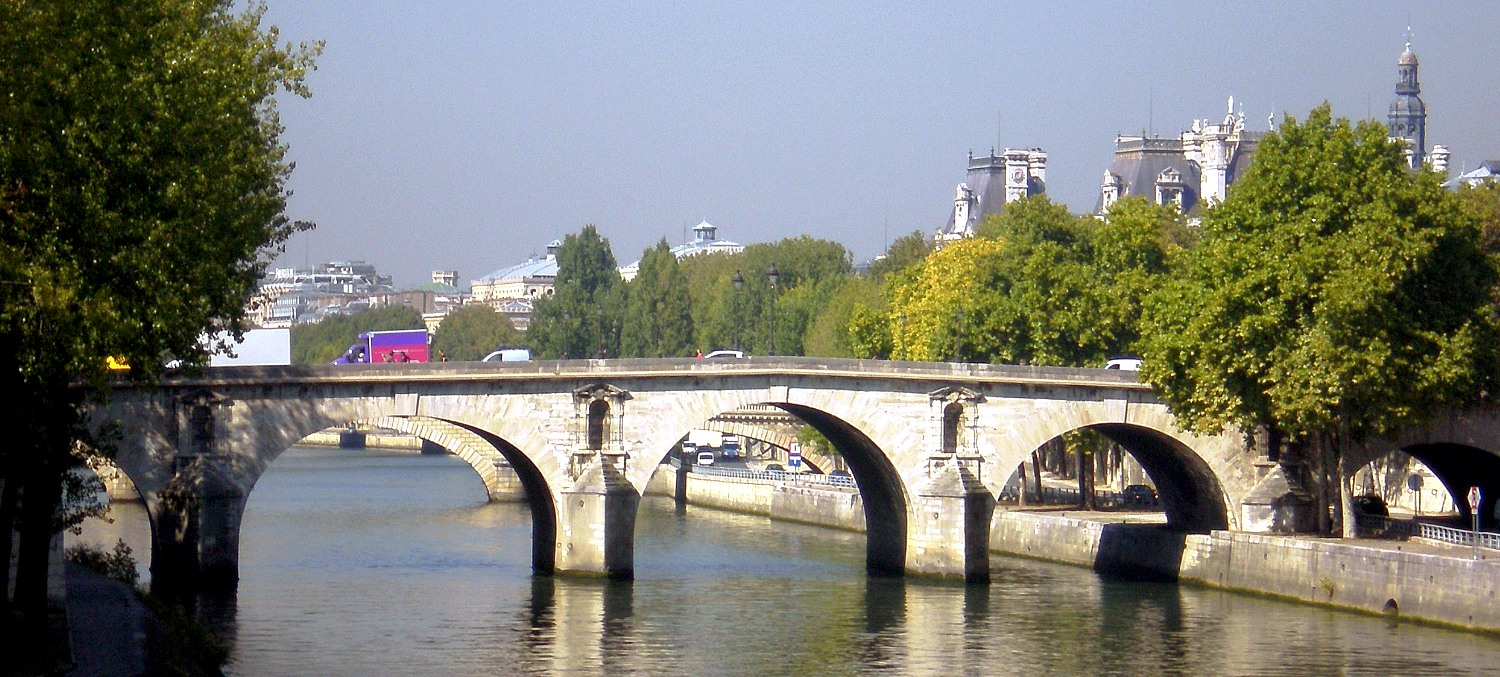 Marie Bridge - Paris